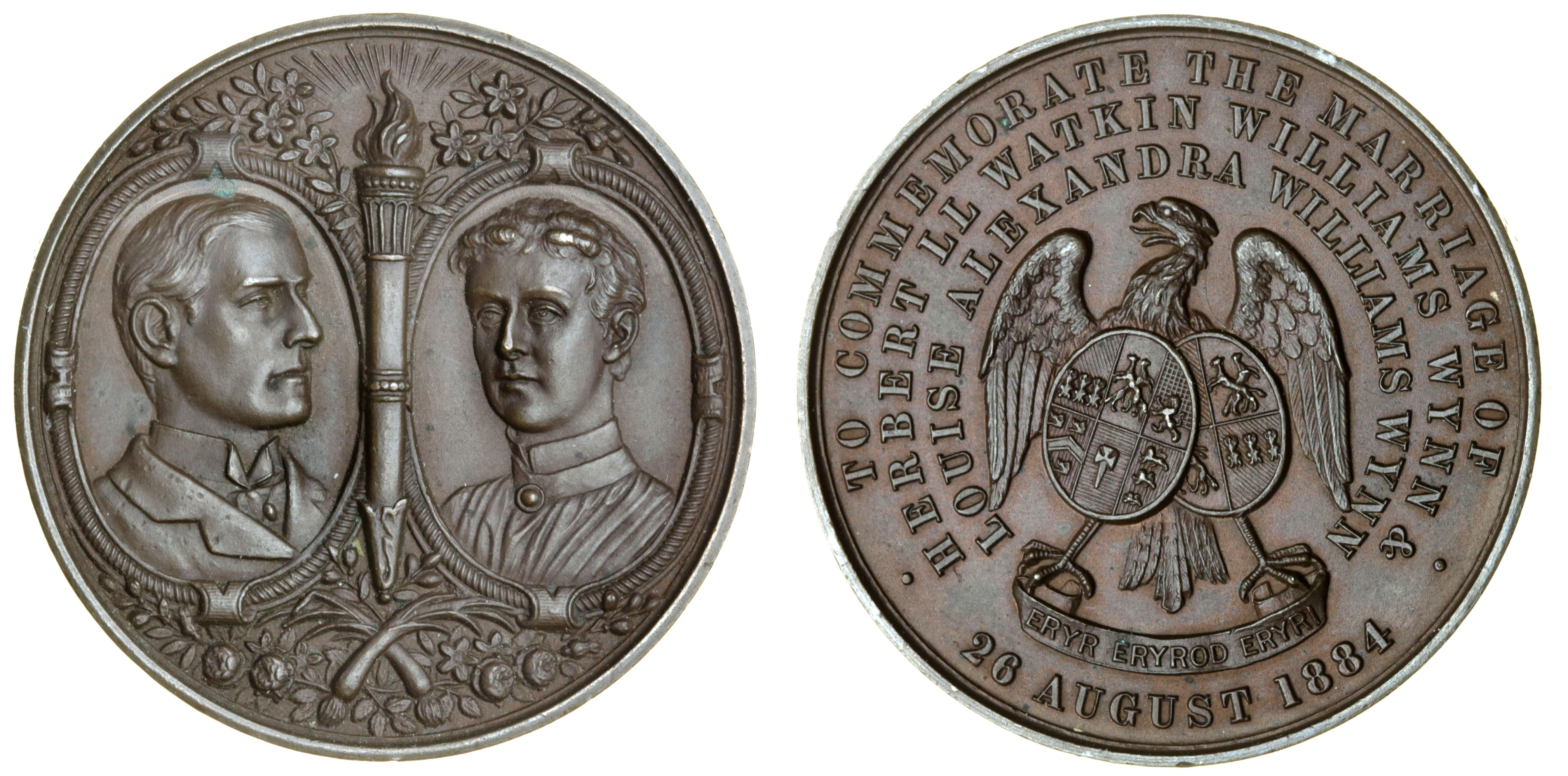 Marriage Medal celebrating the wedding of Sir Herbert Lloyd Watkin Williams Wynn to Louisa Alexandra Williams Wynn, in 1884.